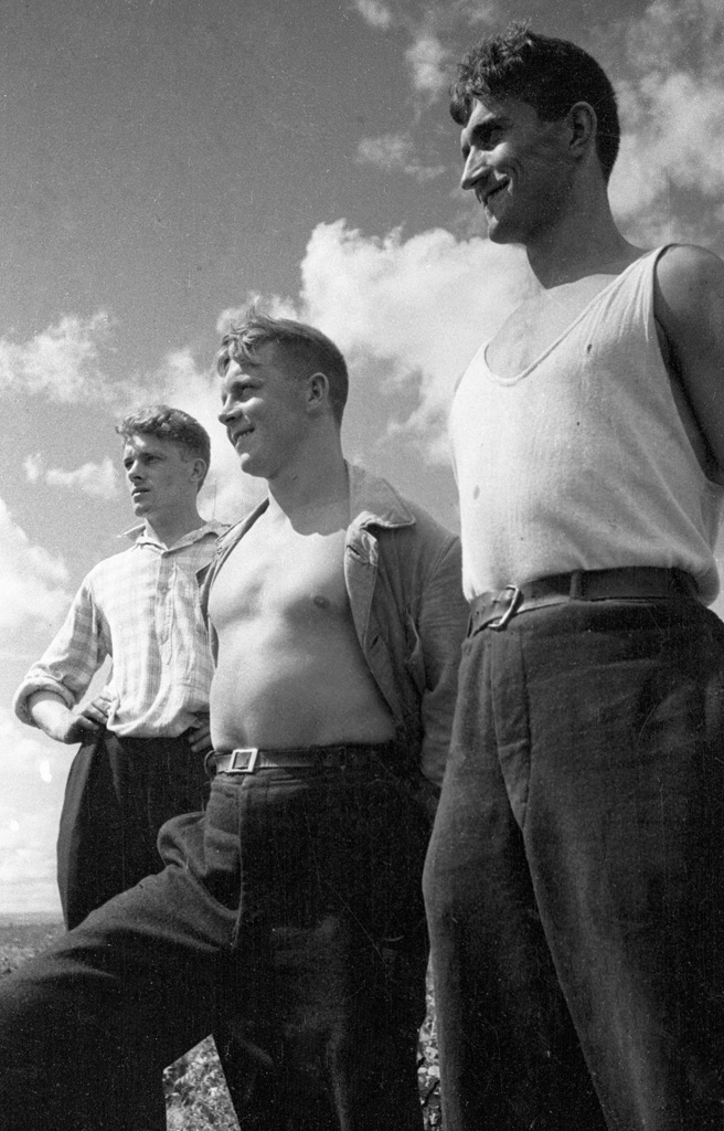 “Komsomolsk-on-Amur builders”. Young communists, the first builders of Komsomolsk-on-Amur.